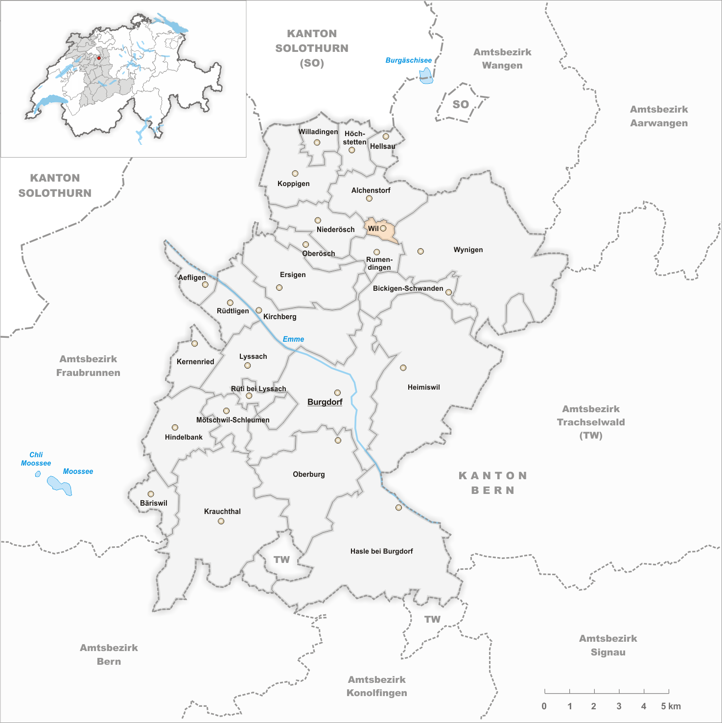 Municipality Wil